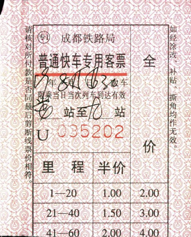 5629/5630 crews issues substituting tickets written by hands only.